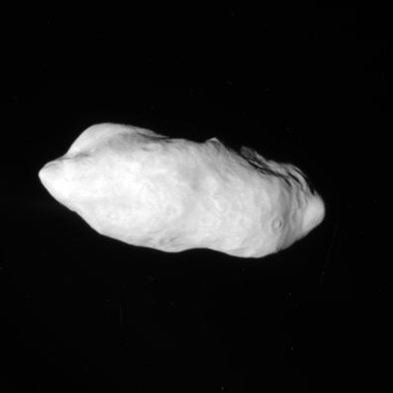 This raw, unprocessed image of Prometheus was taken by Cassini on Dec. 26, 2009. The image was taken in visible light with the Cassini spacecraft narrow-angle camera on Dec. 26, 2009 at a distance of approximately 79,000 kilometers (49,000 miles) from Prometheus and at a Sun-Prometheus-spacecraft, or phase, angle of 18 degrees. Image scale is 474 meters (1,556 feet) per pixel. The Cassini Equinox Mission is a joint United States and European endeavor. The Jet Propulsion Laboratory, a division of the California Institute of Technology in Pasadena, manages the mission for NASA's Science Mission Directorate, Washington, D.C. The Cassini orbiter was designed, developed and assembled at JPL. The imaging team consists of scientists from the US, England, France, and Germany. The imaging operations center and team lead (Dr. C. Porco) are based at the Space Science Institute in Boulder, Colo. For more information about the Cassini Equinox Mission visit and The original NASA image has been modified by cropping and doubling the linear pixel density.